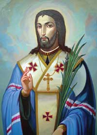 This is a devotional painting of Saint Josaphat Kuncevyc, from an English church building. Painting older than 150 years. Rationale: necessary to illustrate article.